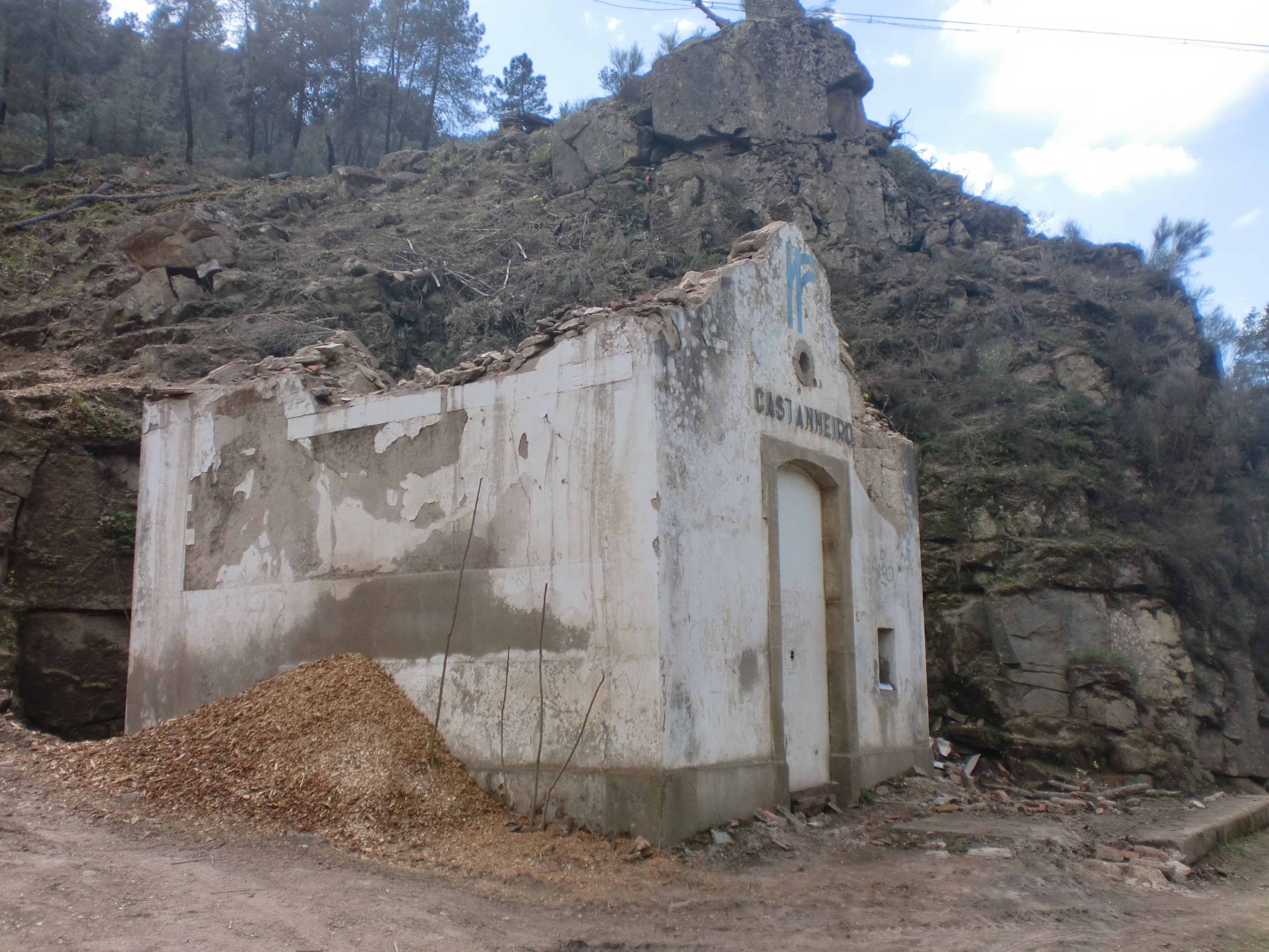 Castanheiro station after partial demolition for the construction of Tua Dam (Trás-os-Montes e Alto Douro, Portugal)